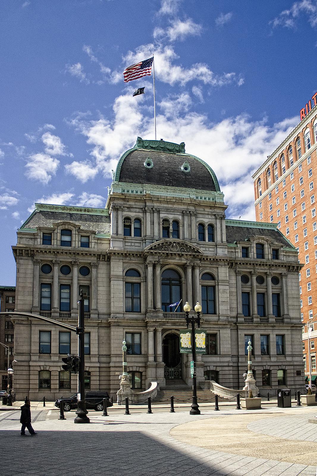 Providence City Hall, Rhode Island, USA.